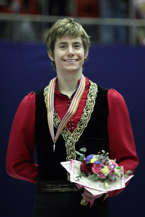 Jeffrey Buttle during the men's medals ceremony at the 2008 Four Continents Figure Skating Championships. He won the silver medal at this competition.